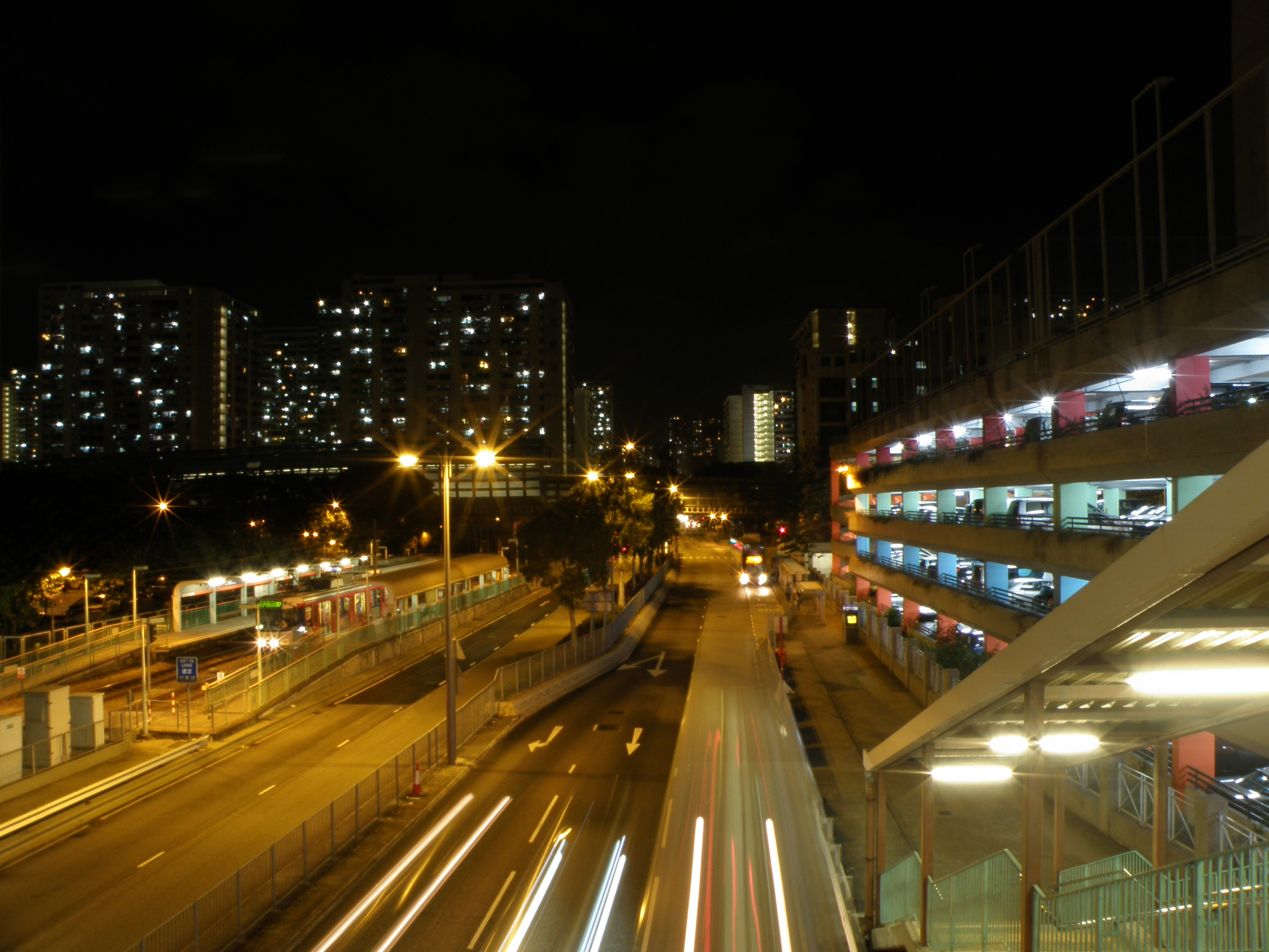 Tuen Mun Heung Sze Wui Road in Tuen Mun, Hong Kong.